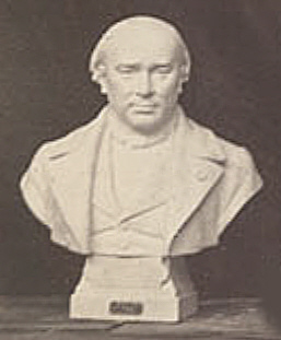 Portrait of Jules Triger